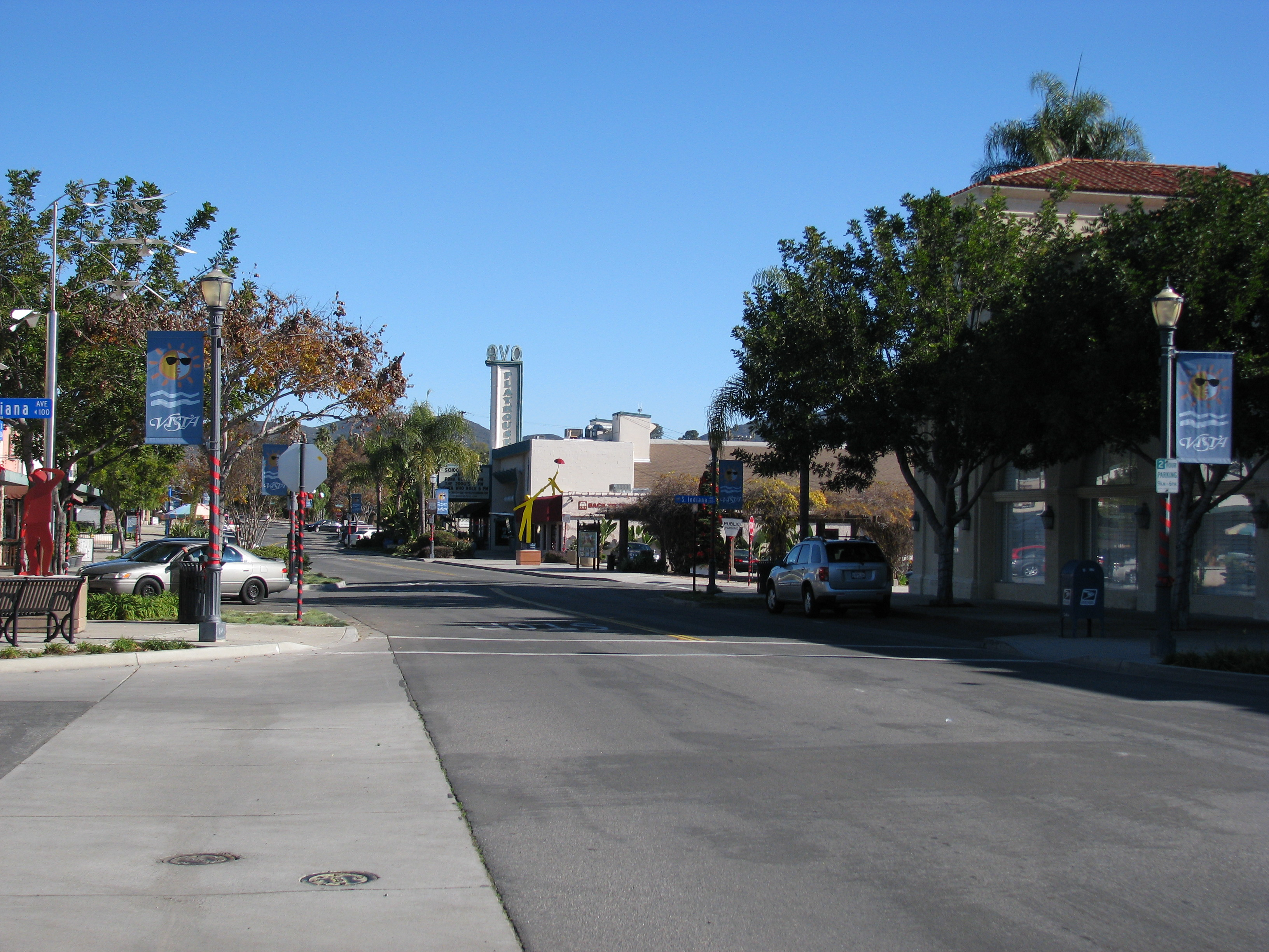 View east down Main Street in Vista,California